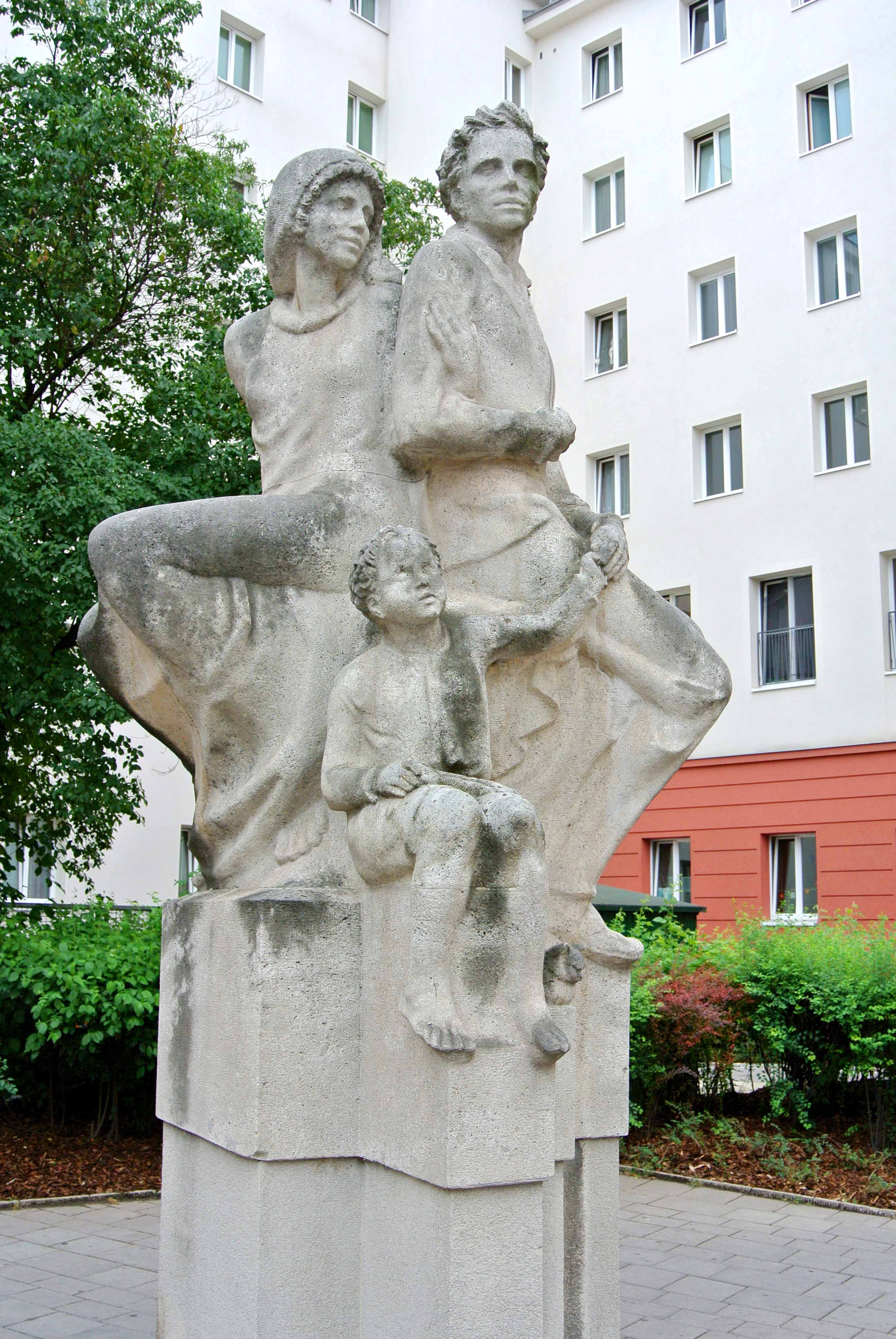 "Family" - natural stone sculpture (1956), Margaretha Hanusch, sculptor and art teacher, born in 1904. + 1993. The sculpture is located in Vienna 3, Landstraßer Hauptstr.92-94 (Kurt-Steyrer-Hof).